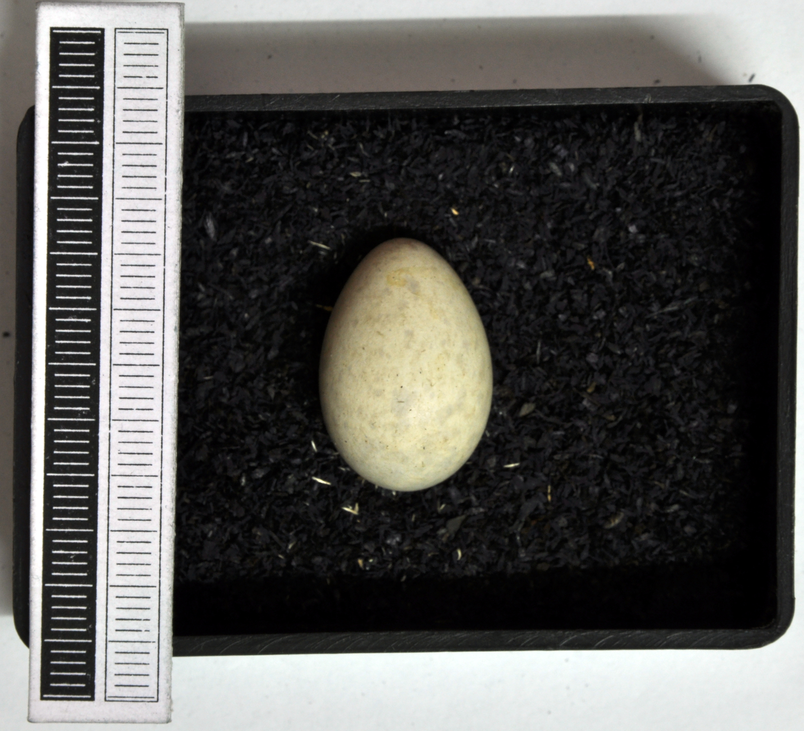 Barred warbler Sylvia nisoria , egg, Coll. Museum Wiesbaden, leg. W. Abelmann